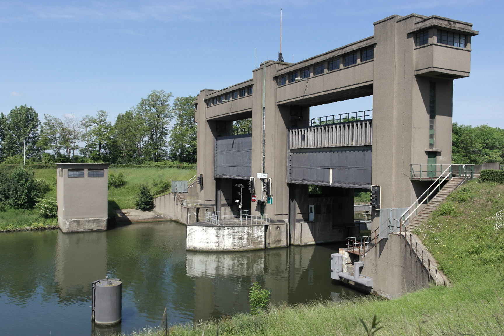 Maastricht, the Netherlands. View of the Sluis van Limmel, the canal lock in Julianakanaal between Limmel and Borgharen.